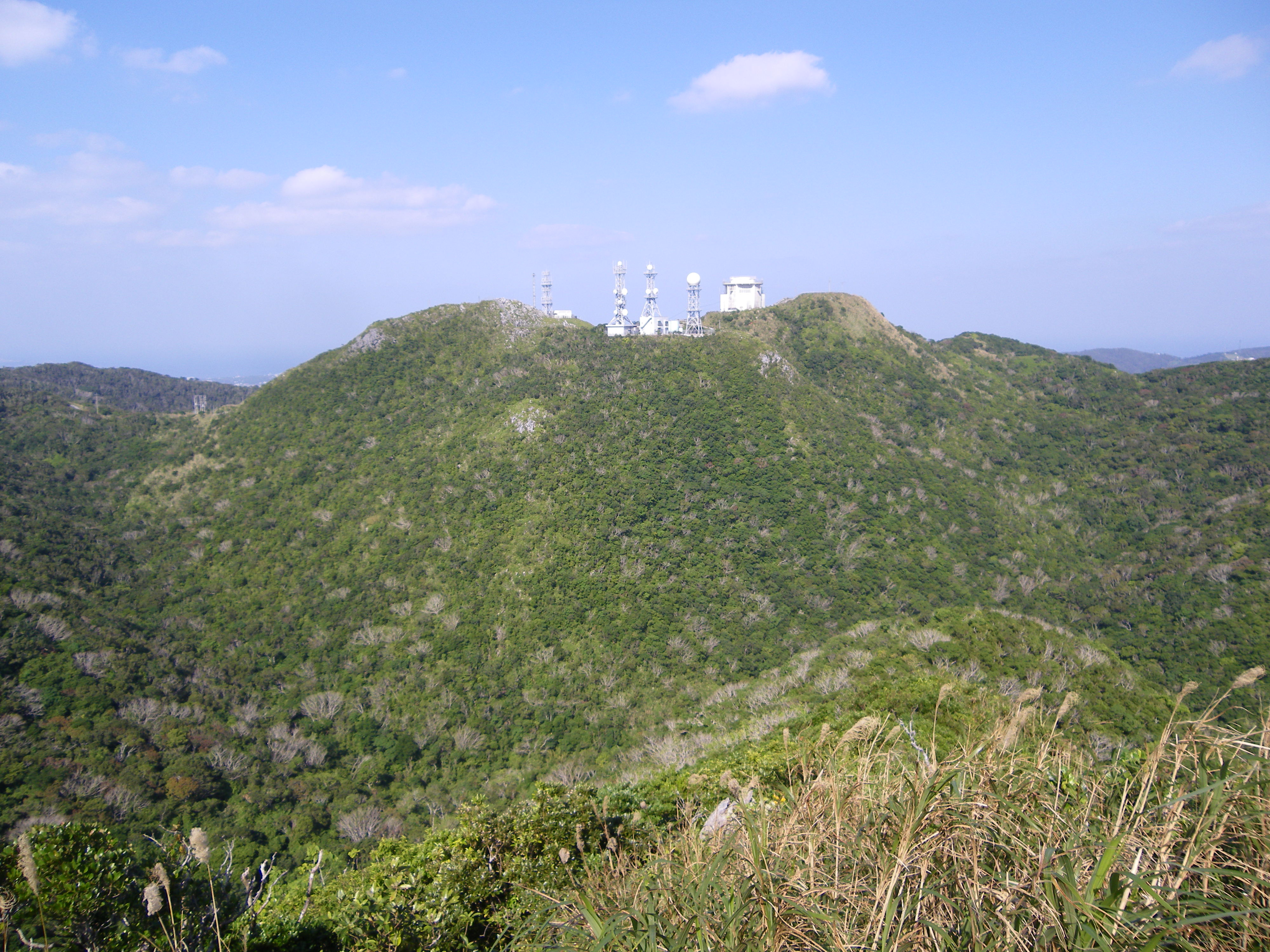 Mount Yae seen from Mount Awa